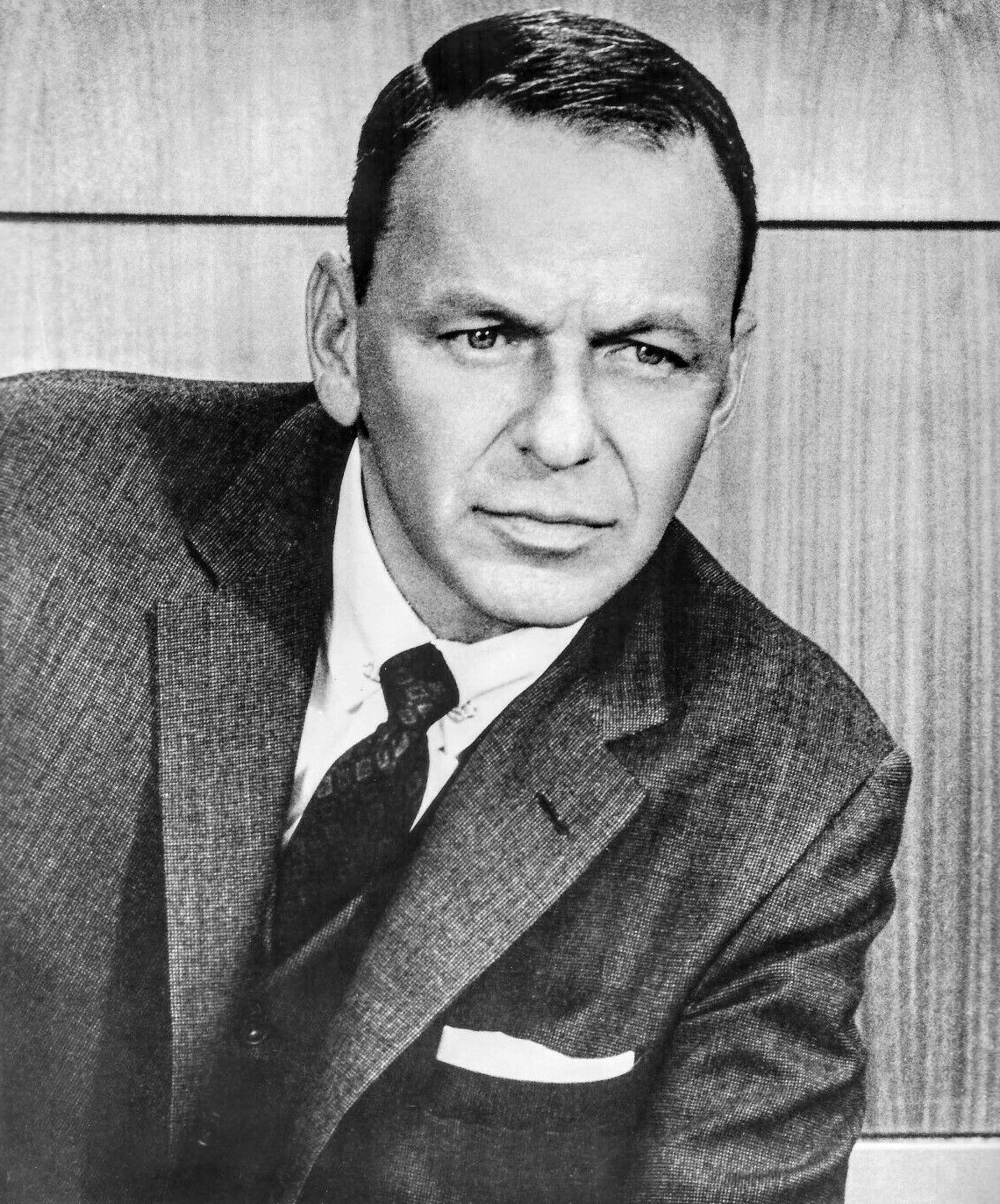 Publicity photo of Frank Sinatra in the 1965 film Marriage on the Rocks.